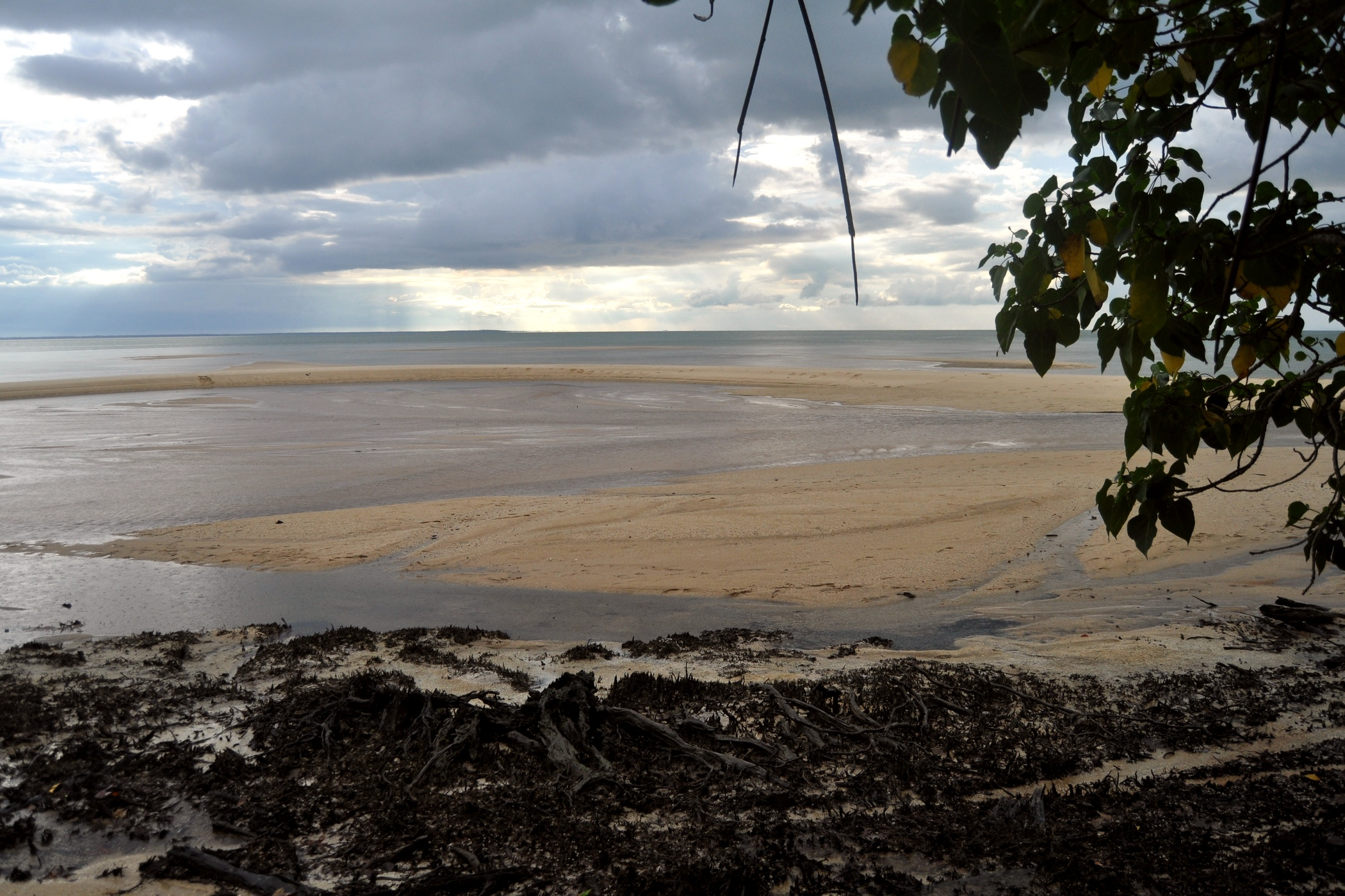 Eroded sandy beach in front of a Barringtonia formation, in southern Bangka Island, Indonesia. Note the silhouette of Thespesia populnea at the right corner.